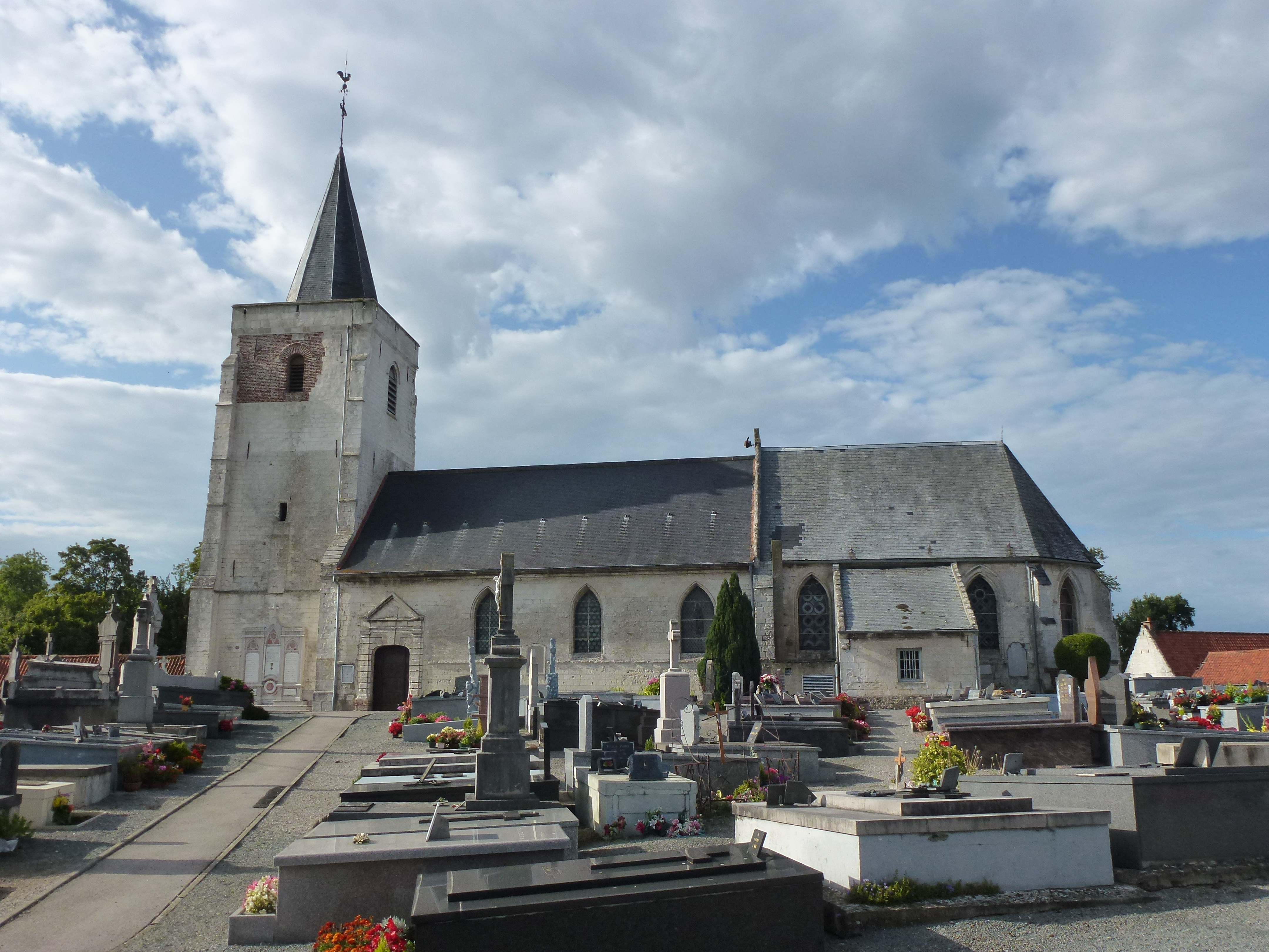 Louches (Pas-de-Calais) église